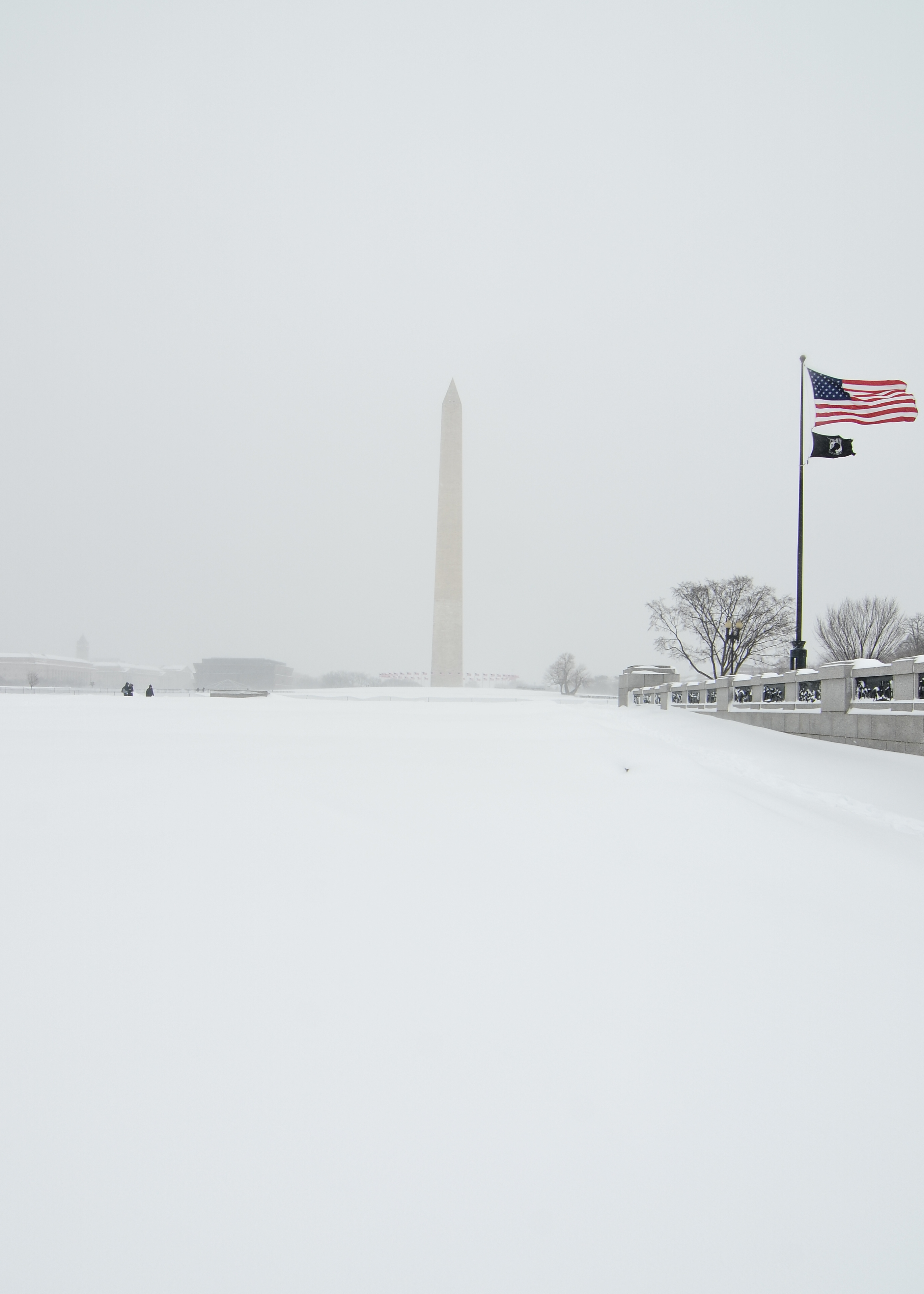 The Washington Monument as seen from the nearby National WW II memorial site